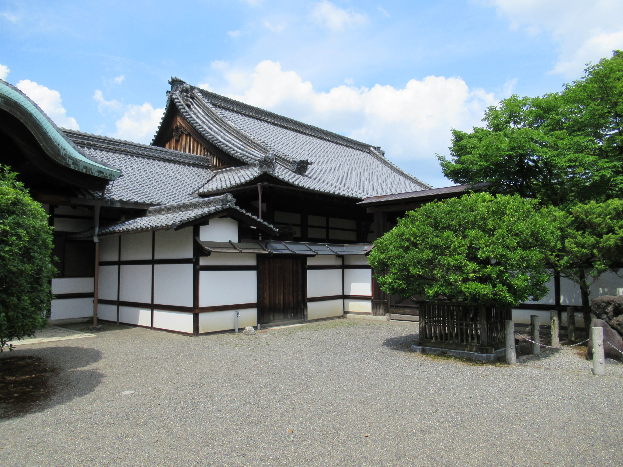 Hōkyō-ji, Kamigyo-ku, Kyoto.